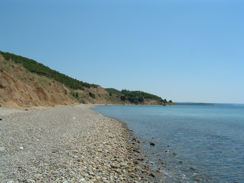 The beach at Anzac Cove, Gallipoli, Turkey. The view is from the northern headland, Ari Burnu, looking south towards the southern headland, Hell Spit. In the far distance can be seen the promontory of Gaba Tepe.